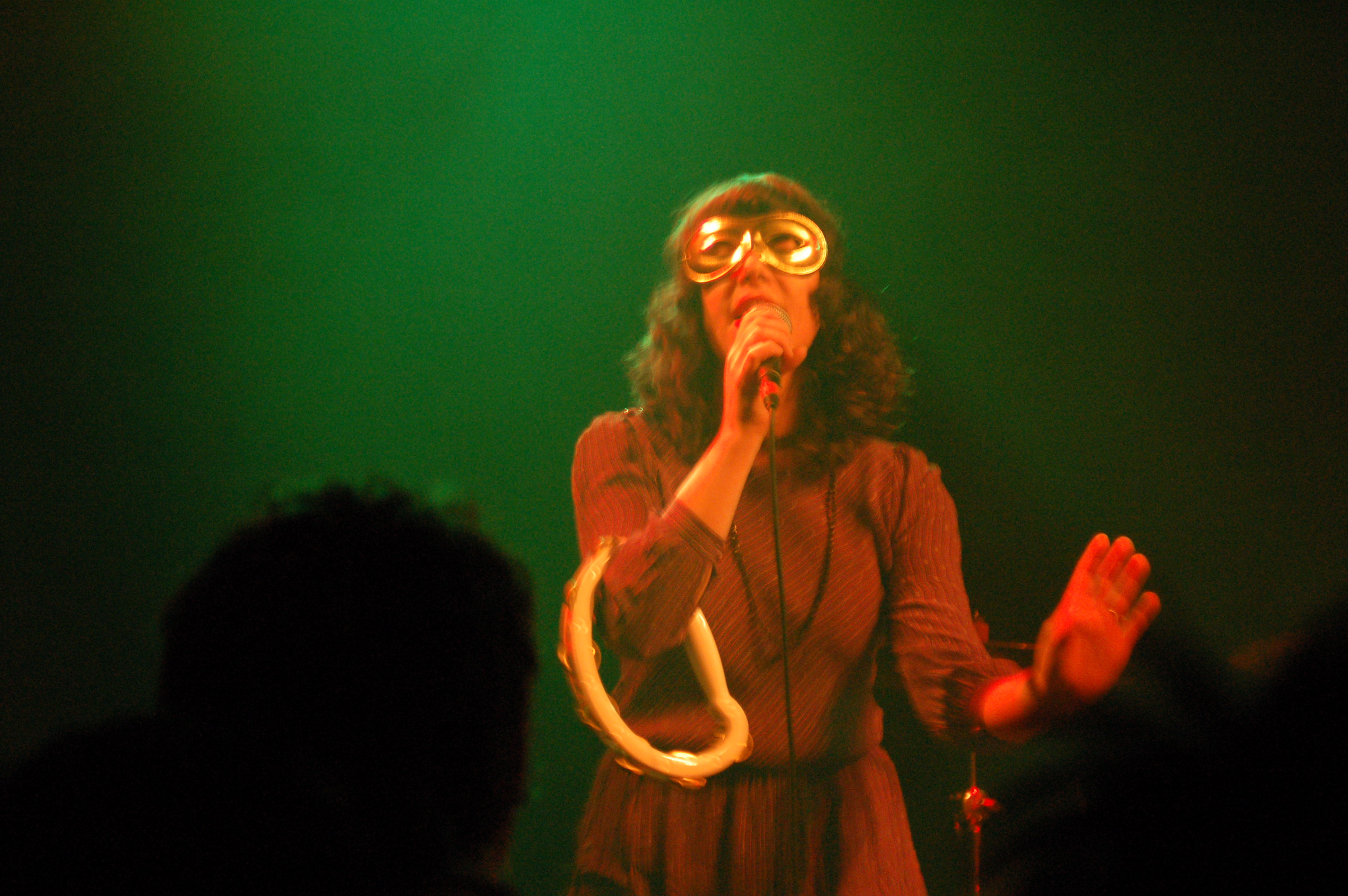 You Say Party! We Say Die! - Paradiso, Amsterdam 20.11.06